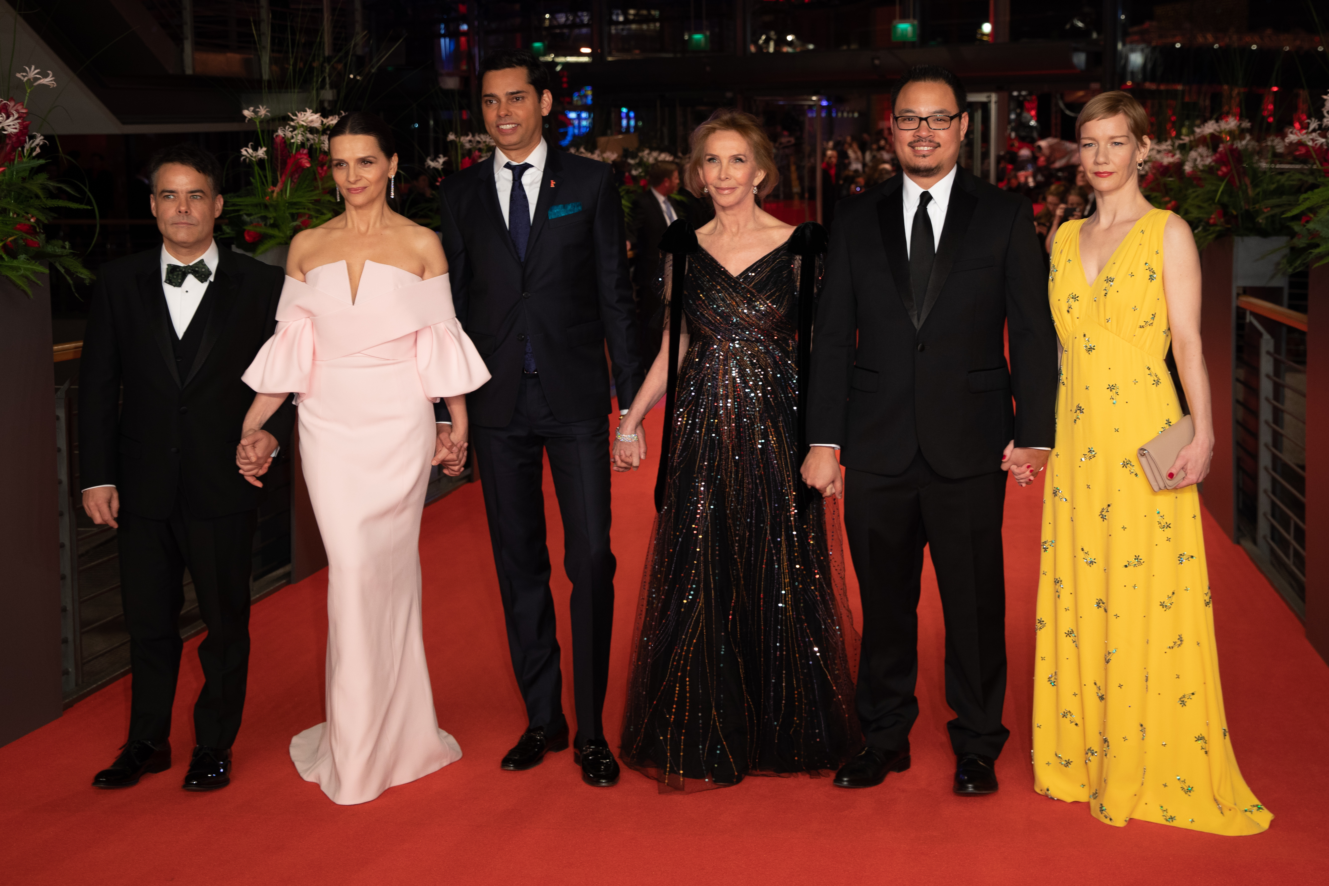 The International Jury of the 2019 Berlin International Film Festival on the Red Carpet at the Closing Gala